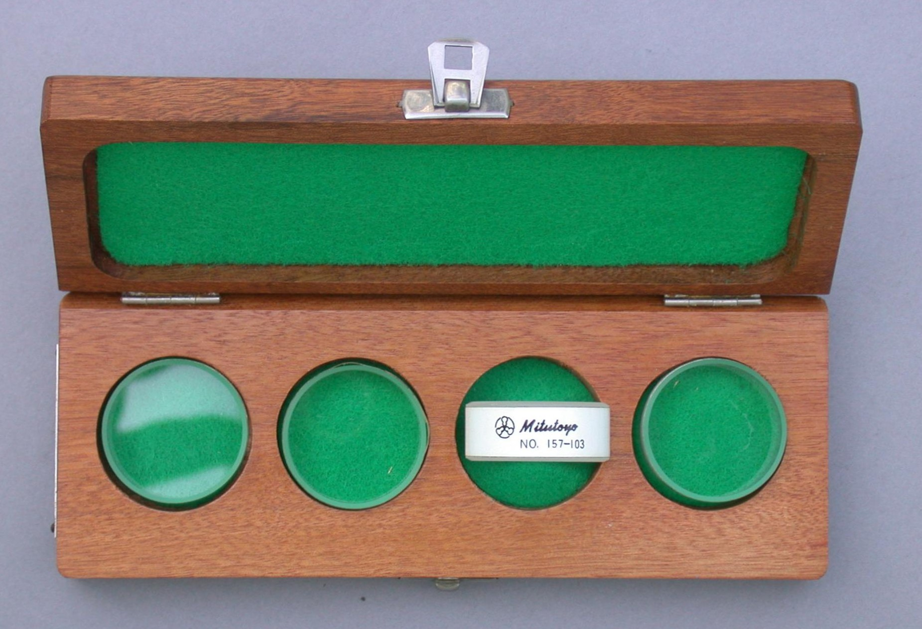 Optical flats in wooden case with edge shot of one flat, showing Mitutoyo part number, each flat is approximately 1 inch (25mm) in diameter